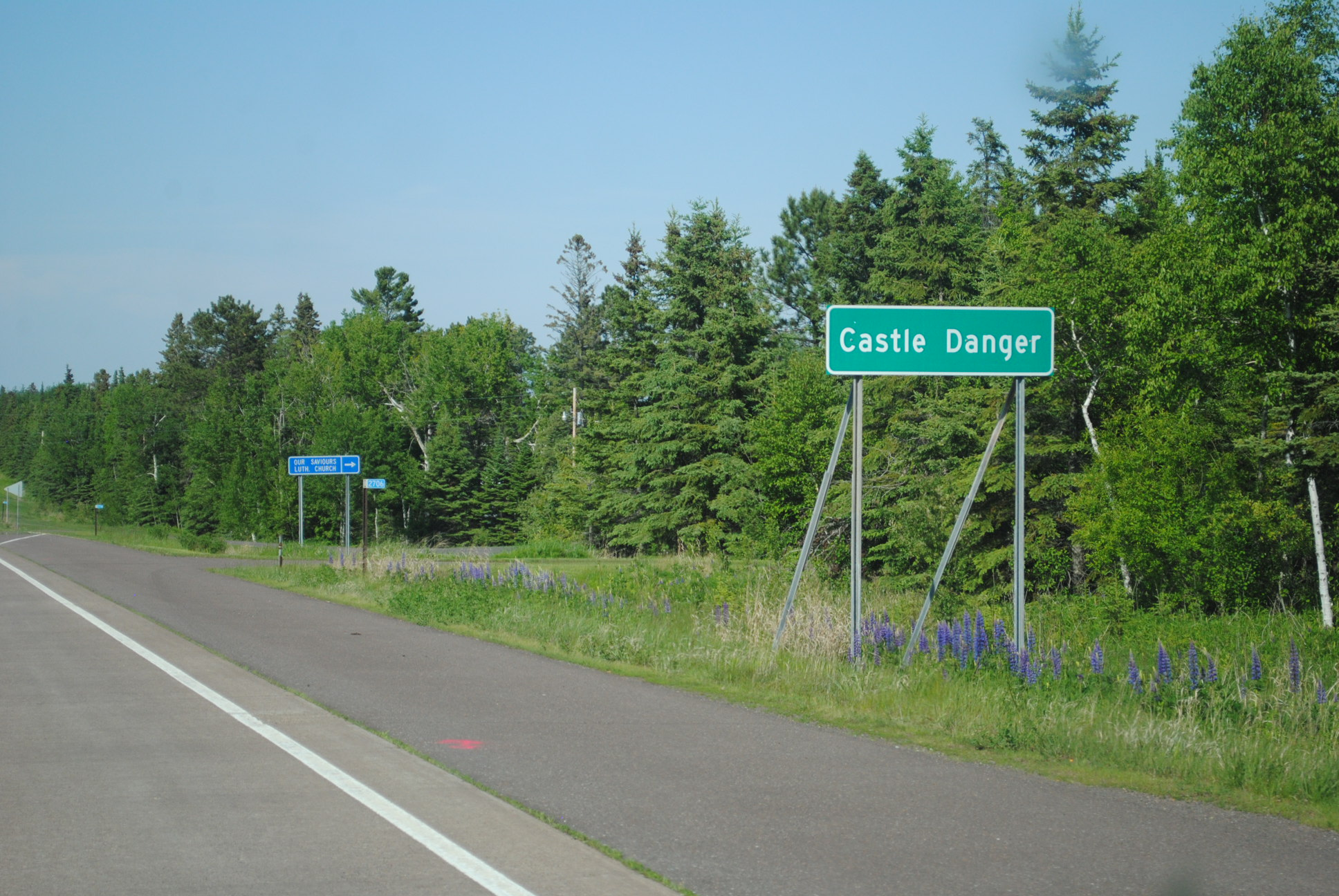 Signpost indicating the border of the unincorporated community Castle Danger, Minnesota.